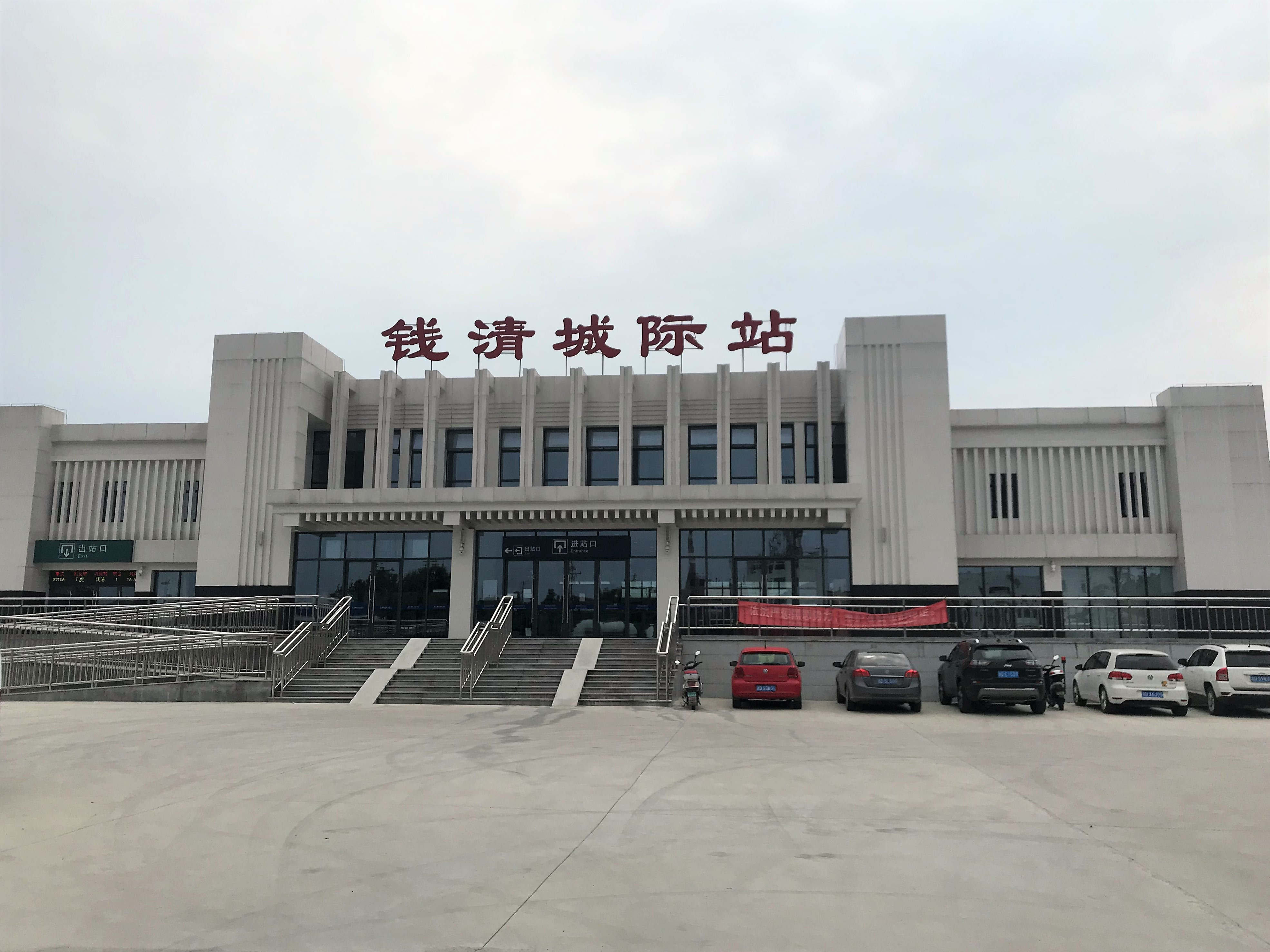 Not that close to the downtown Qianqing